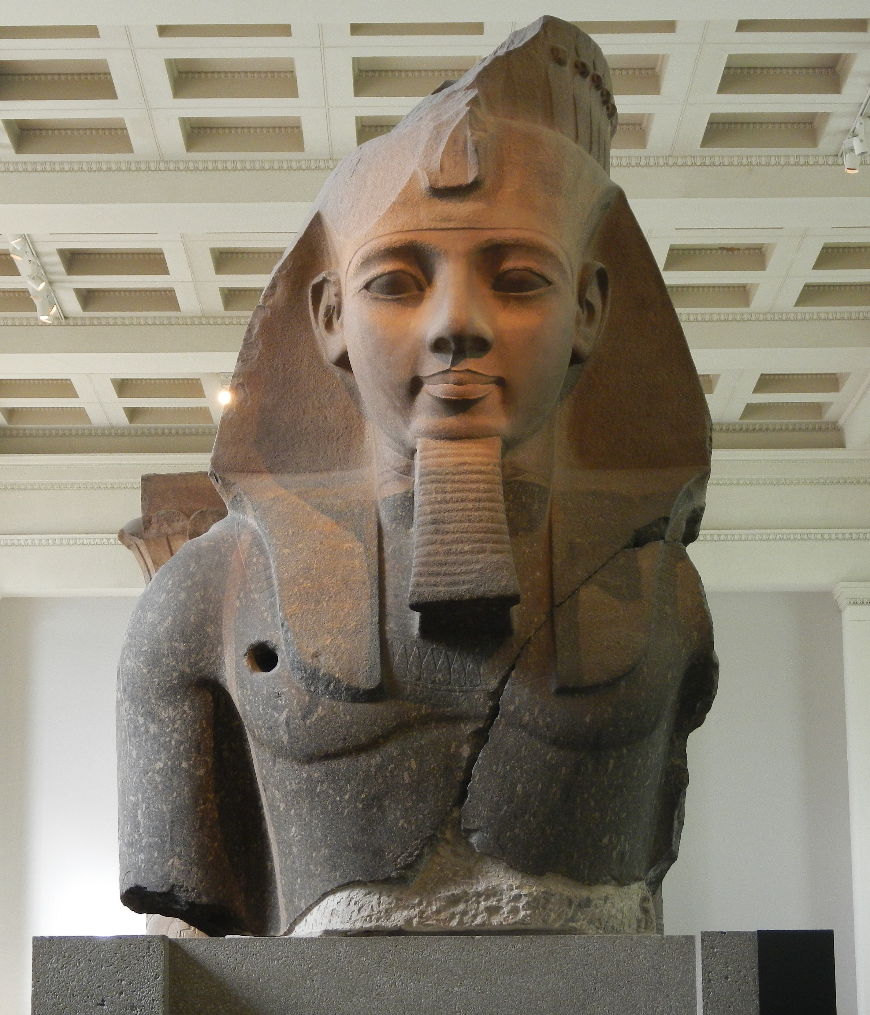 statue of ramsesII